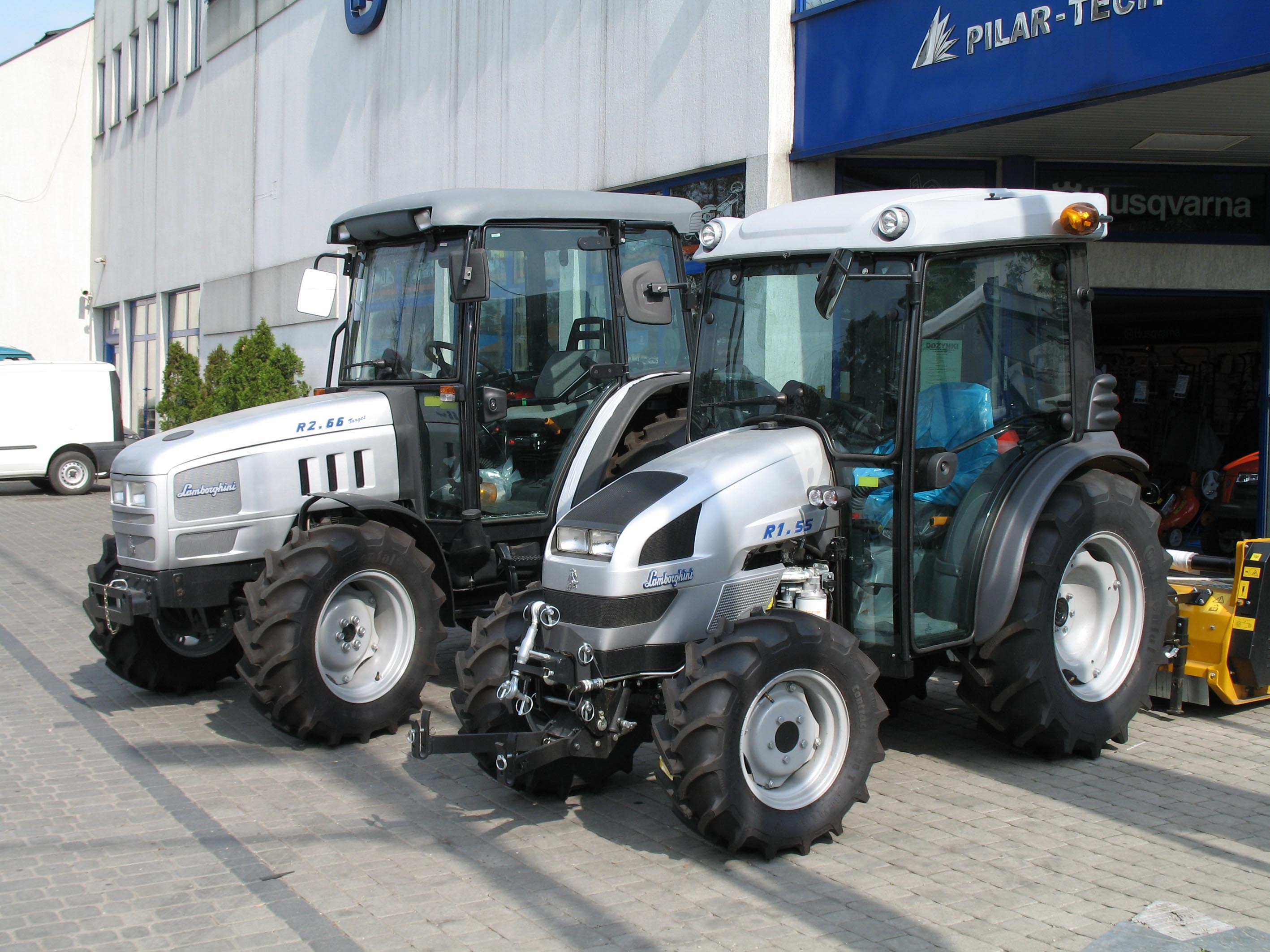 Lamborghini R1.55 and R2.66 tractors in Kraków, Poland.